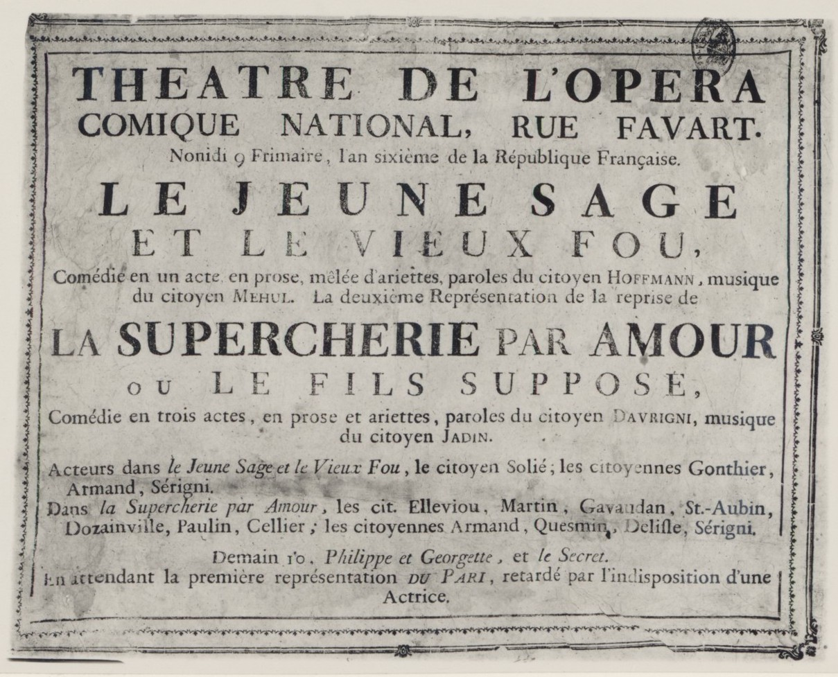 Poster for a repeat of Méhul's opera Le jeune sage et le vieux fou and Louis-Emmanuel Jadin's La supercherie par amour, ou Le fils supposé at the Théâtre Favart